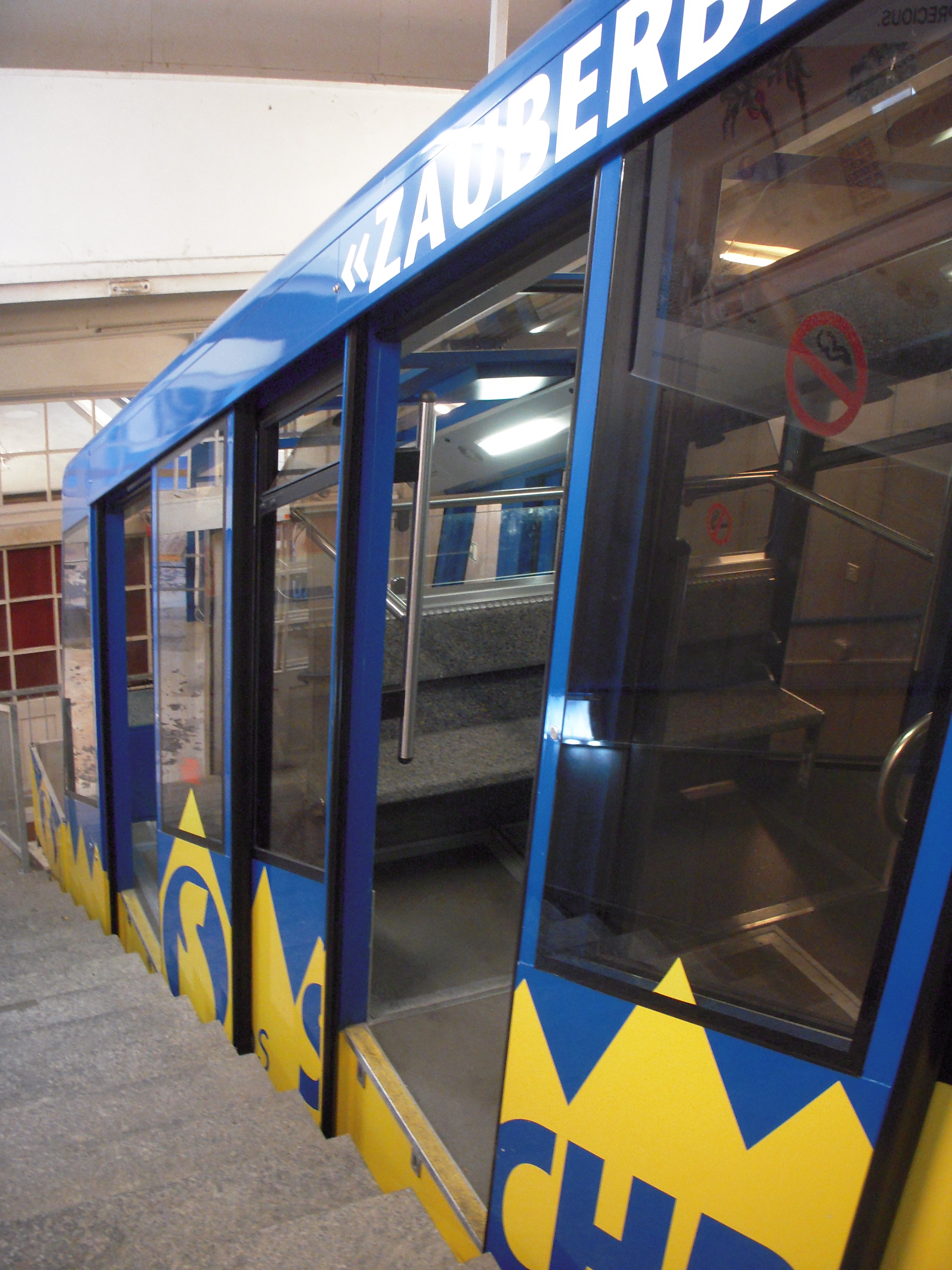 The funicular Schatzalpbahn in Davos Platz. August 15, 2012.